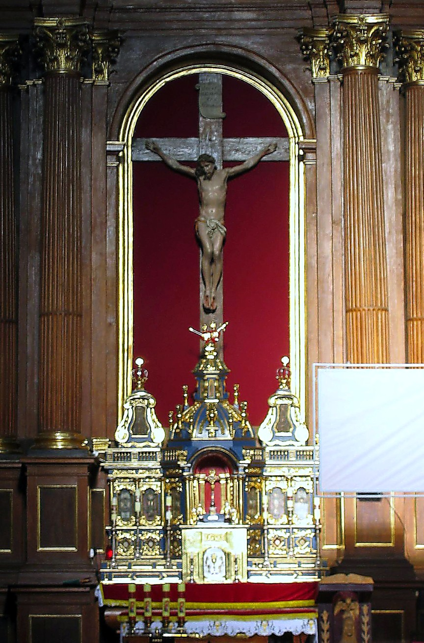 Altar and crucufix of Andreas Schlüter in franciscan church in Węgrów